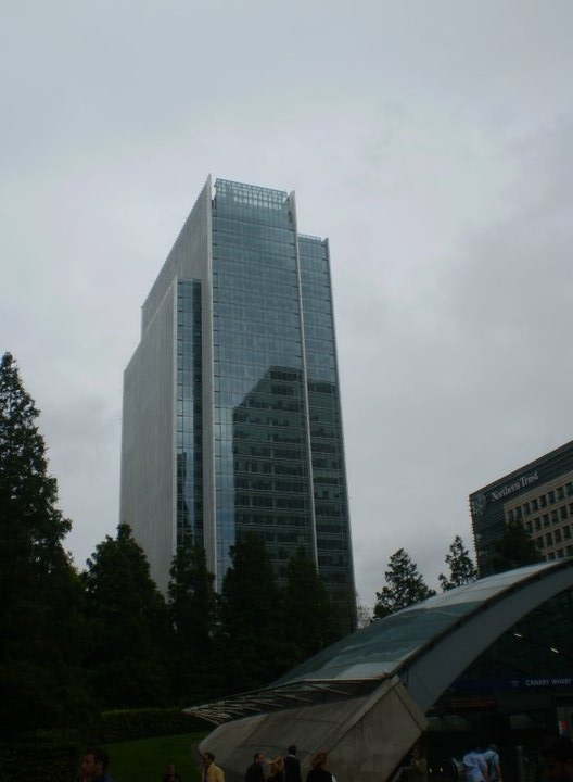 10 Upper Bank Street, Canary Wharf